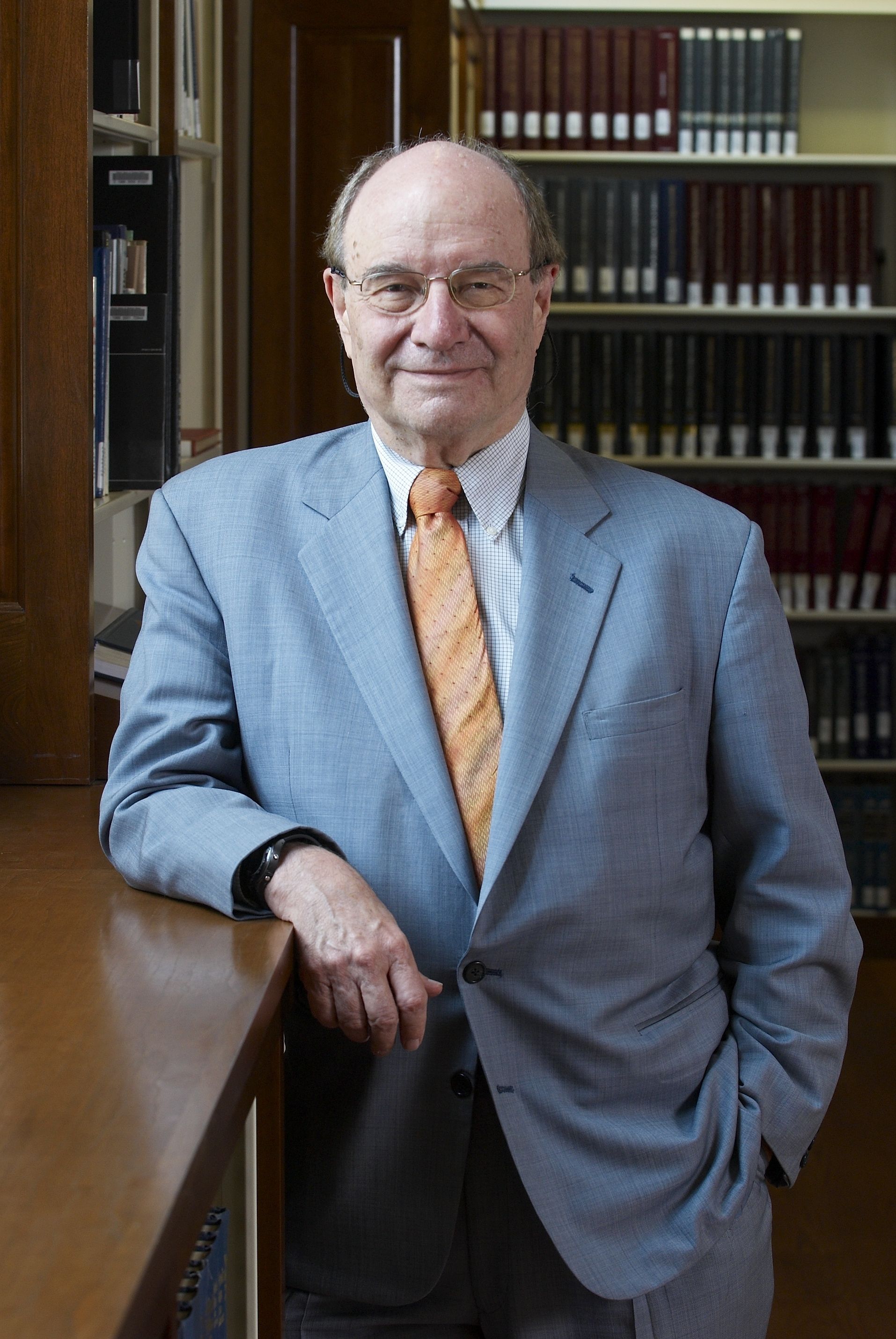 Photograph of Walter Gilbert, chemist and co-recipient of the AIC Gold Medal, 2008, at Heritage Day, Chemical Heritage Foundation, Philadelphia, PA, USA.